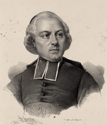 Jean-Sifrein Maury